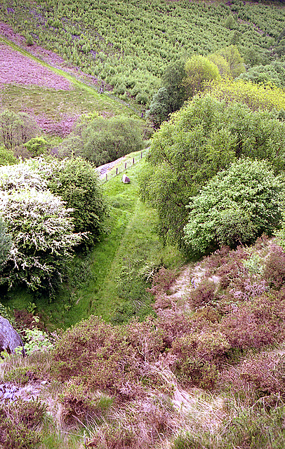 Mid-Wales Railway near Gilfach The view from above the southern portal of the tunnel, looking down on the disused trackbed.